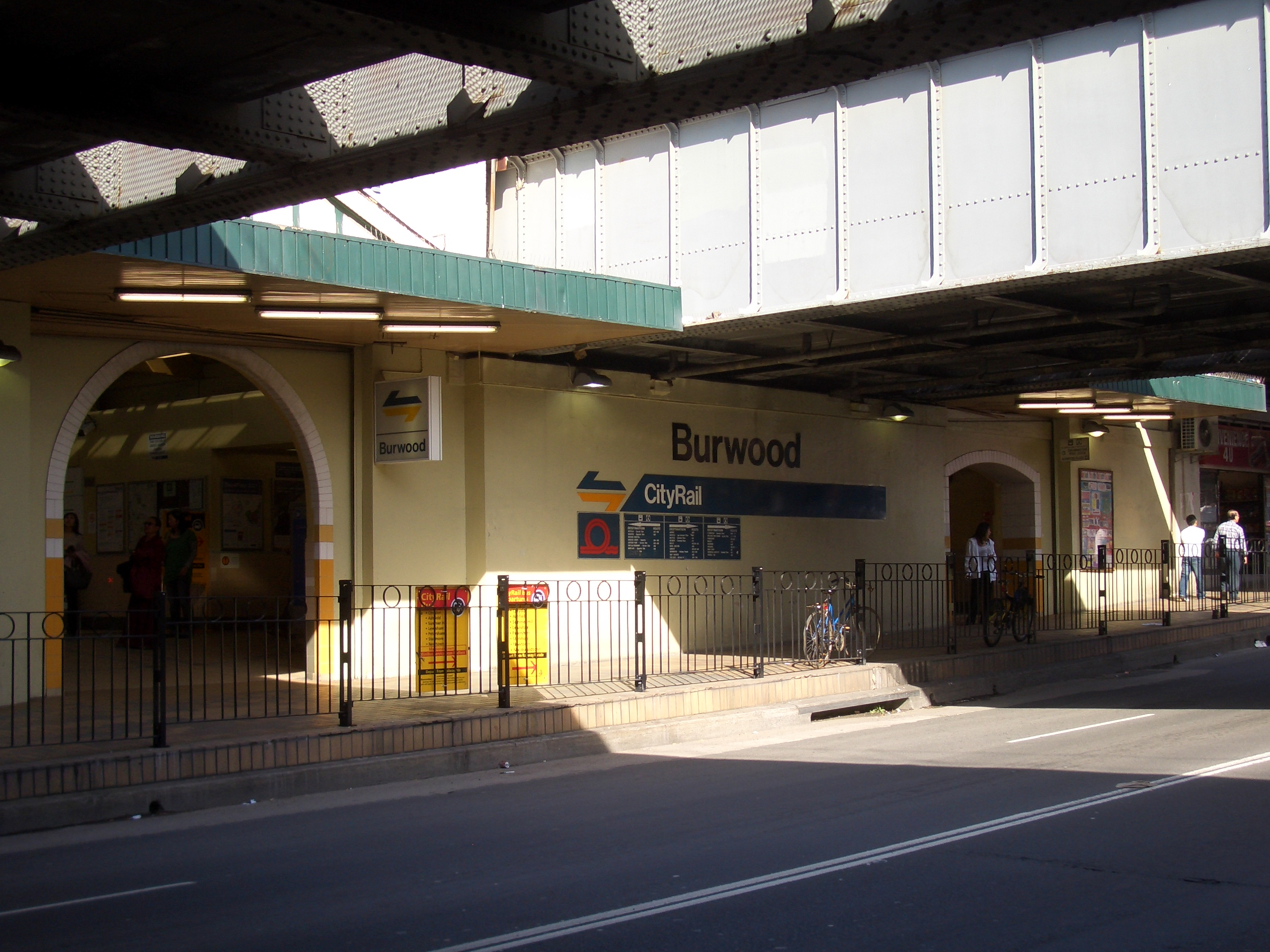 Burwood Railway Station, Sydney